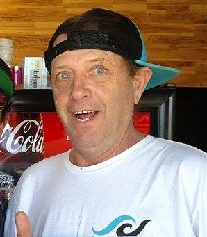 Casey Royer in 2016